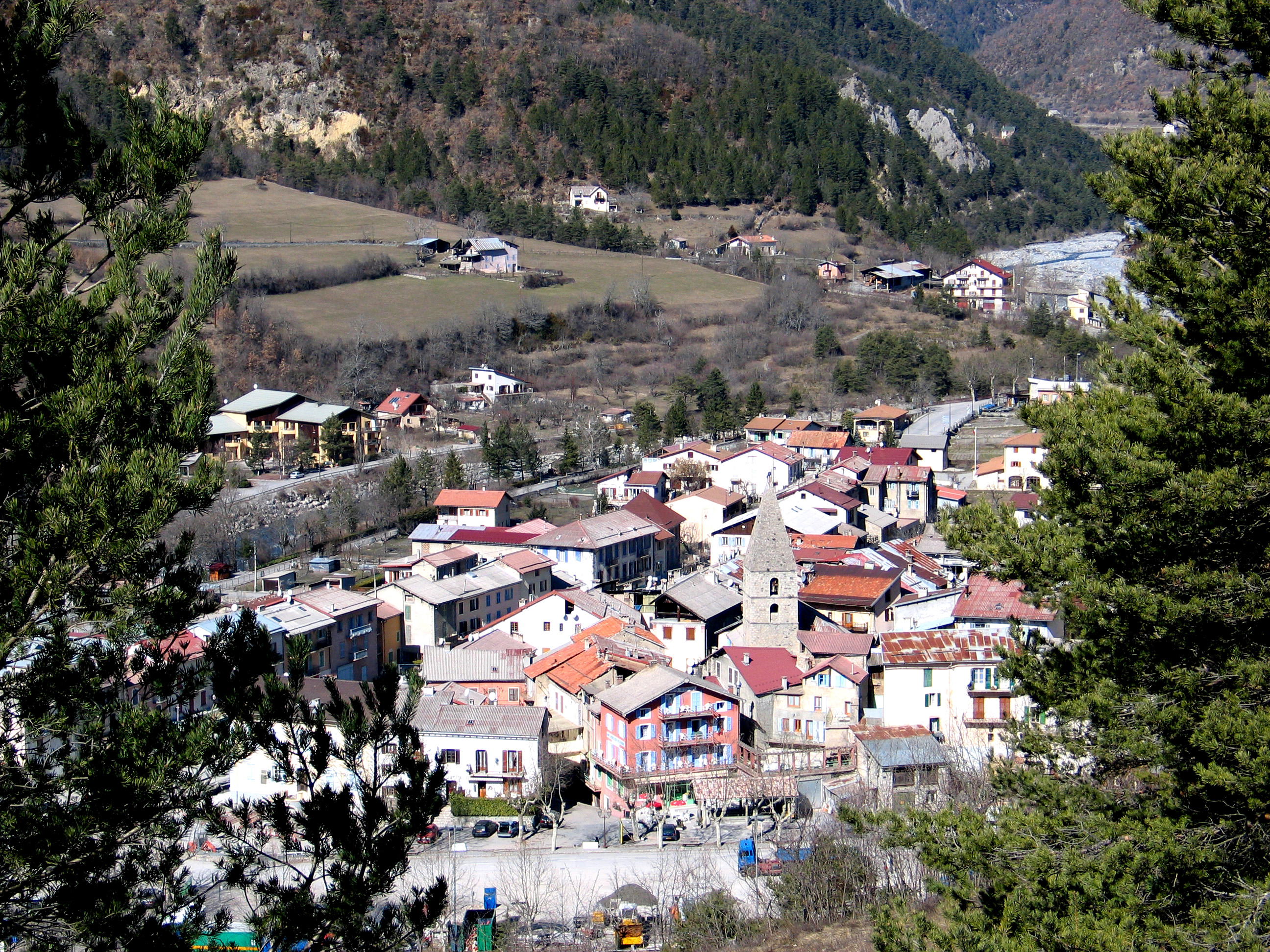 View of Guillaumes, Alpes-Maritimes, France